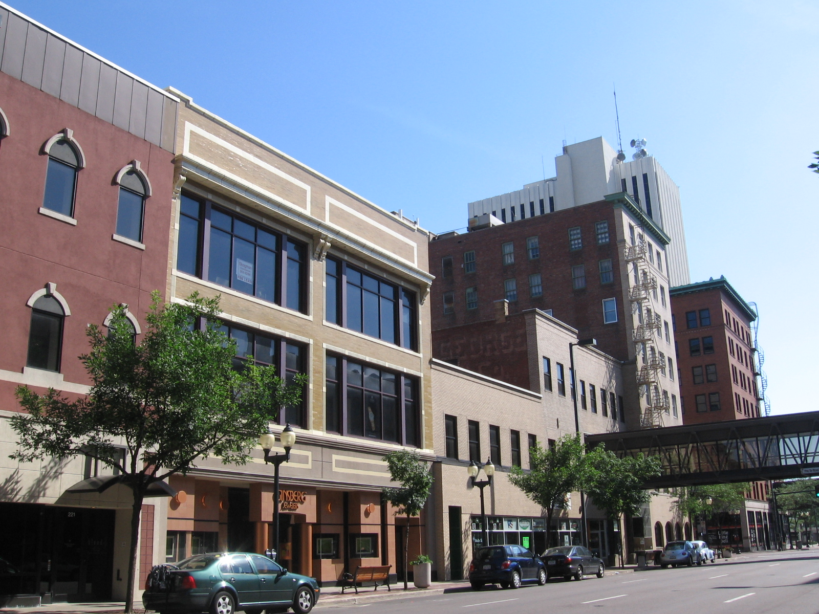 Typical central Downtown Cedar Rapids street with varying building heights. The farthest is the Alliant Energy tower. There is also a minor skyway system in CR. Look is 4th St SE towards the Cedar River.